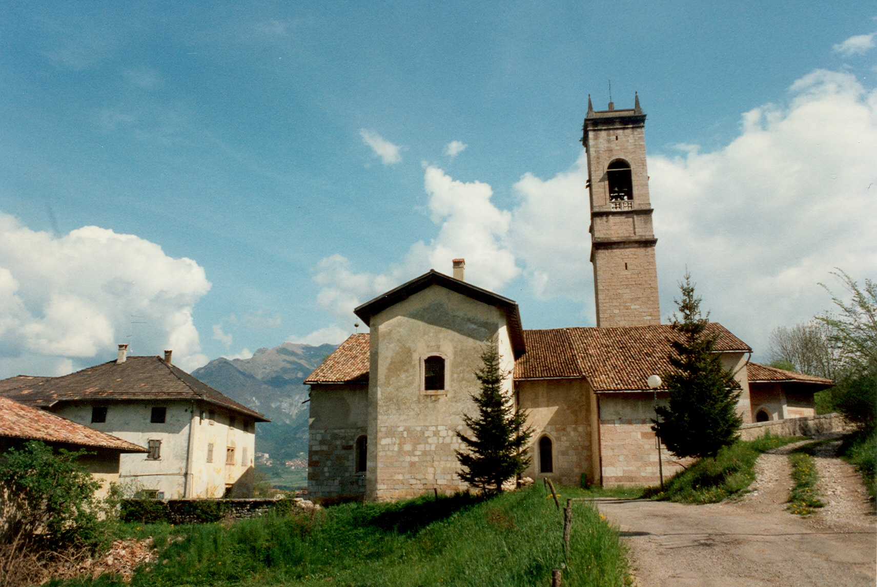 Chiesa pievana di Vigo Lomaso (TN)